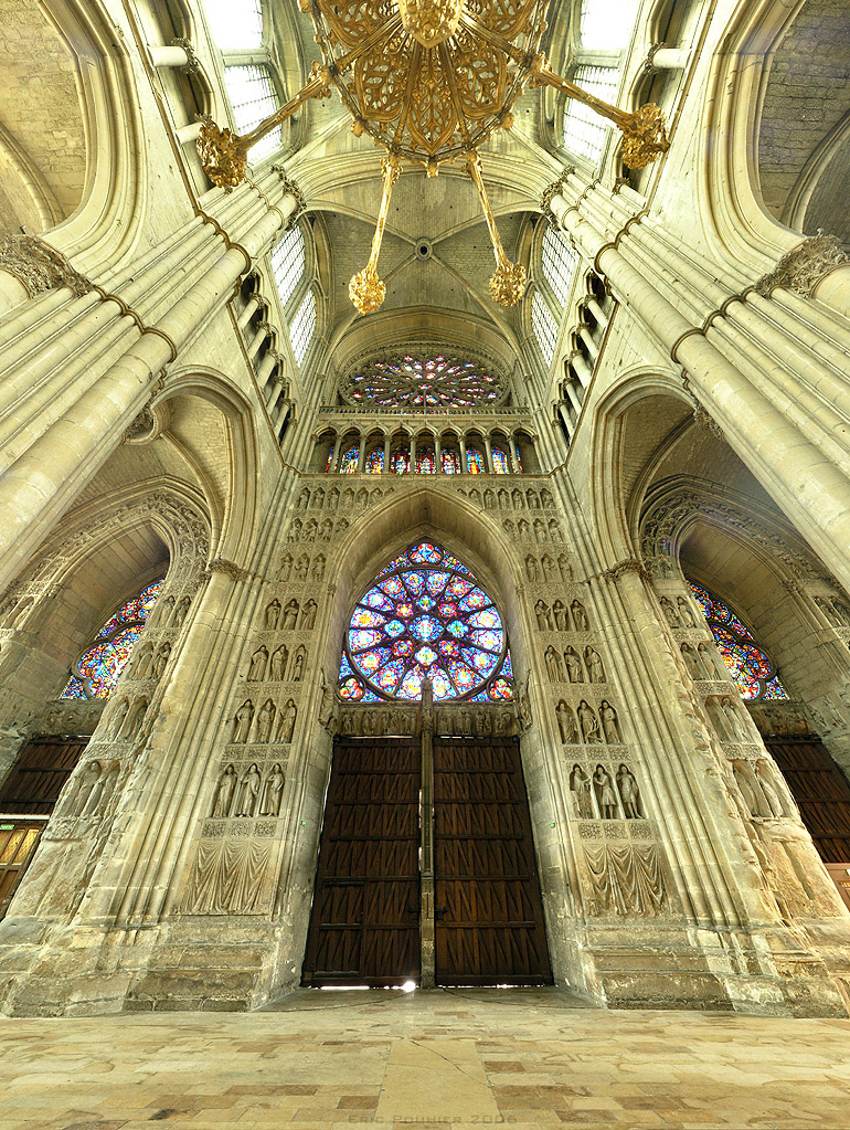 Reims cathedral, photography by Eric Pouhier.